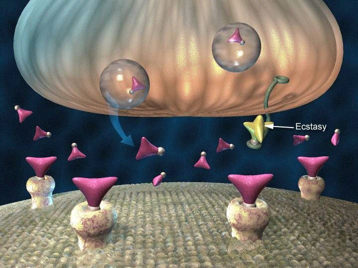 MDMA alters brain chemistry by binding to serotonin transporters.